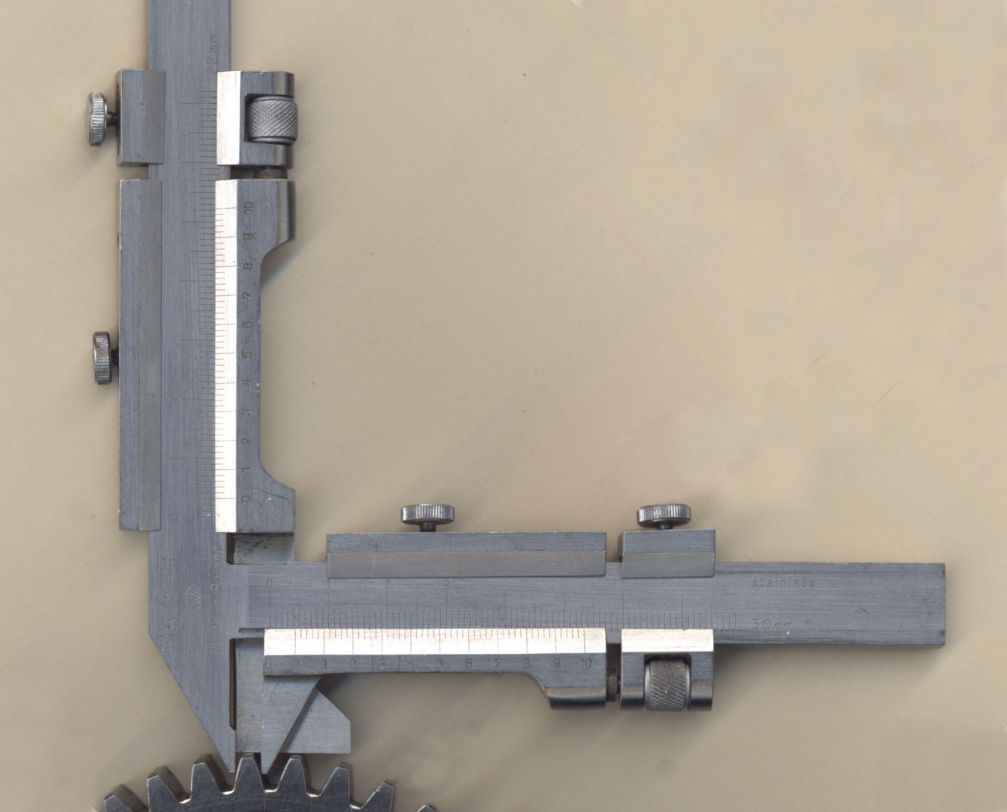 Vernier caliper for geear measurement